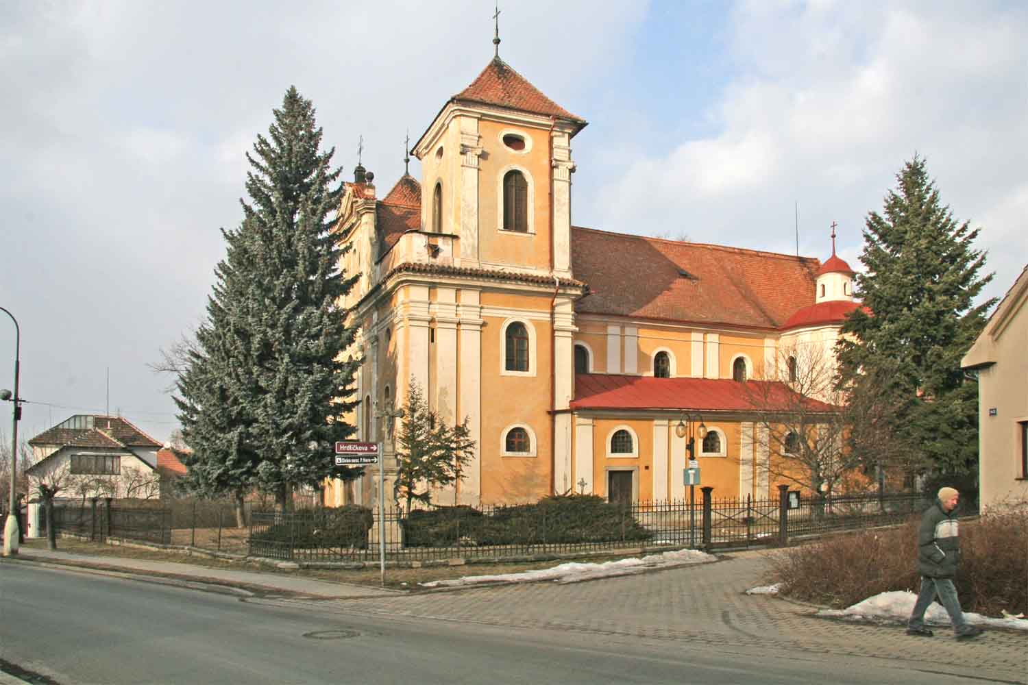 Church of Nativity of Virgin Mary in Dašice, Czech Republic.